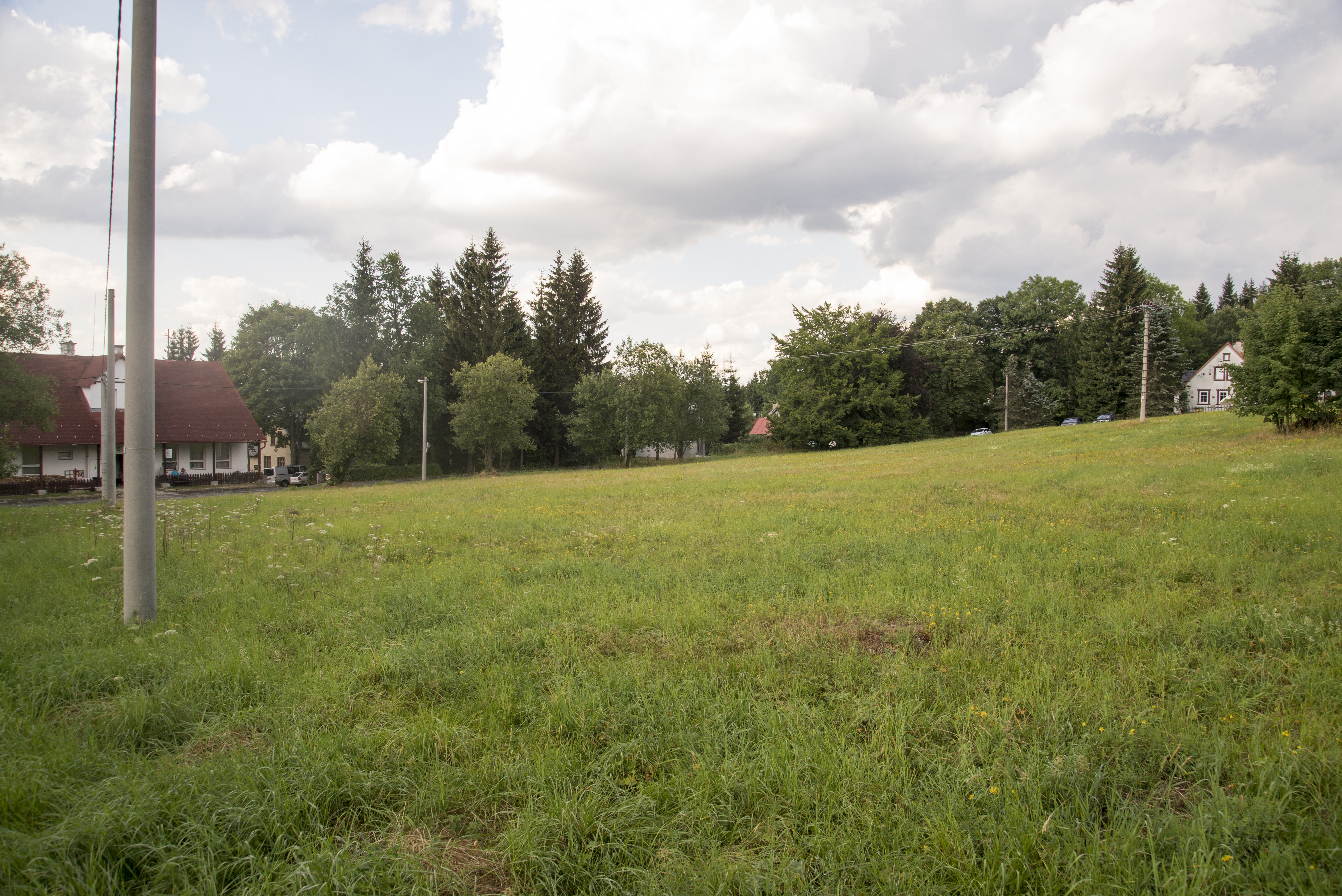 Horní Černá Studnice, part of municipality Nová Ves nad Nisou, district Jablonec nad Nisou, Liberec region, Czechia